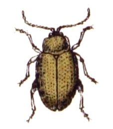 Psylliodes affinis, from Calwer's Käferbuch, Table 43, Picture 21. Taxonomy was updated to 2008, using mostly the sites Fauna Europaea and BioLib. Please contact Sarefo if the determination is wrong!